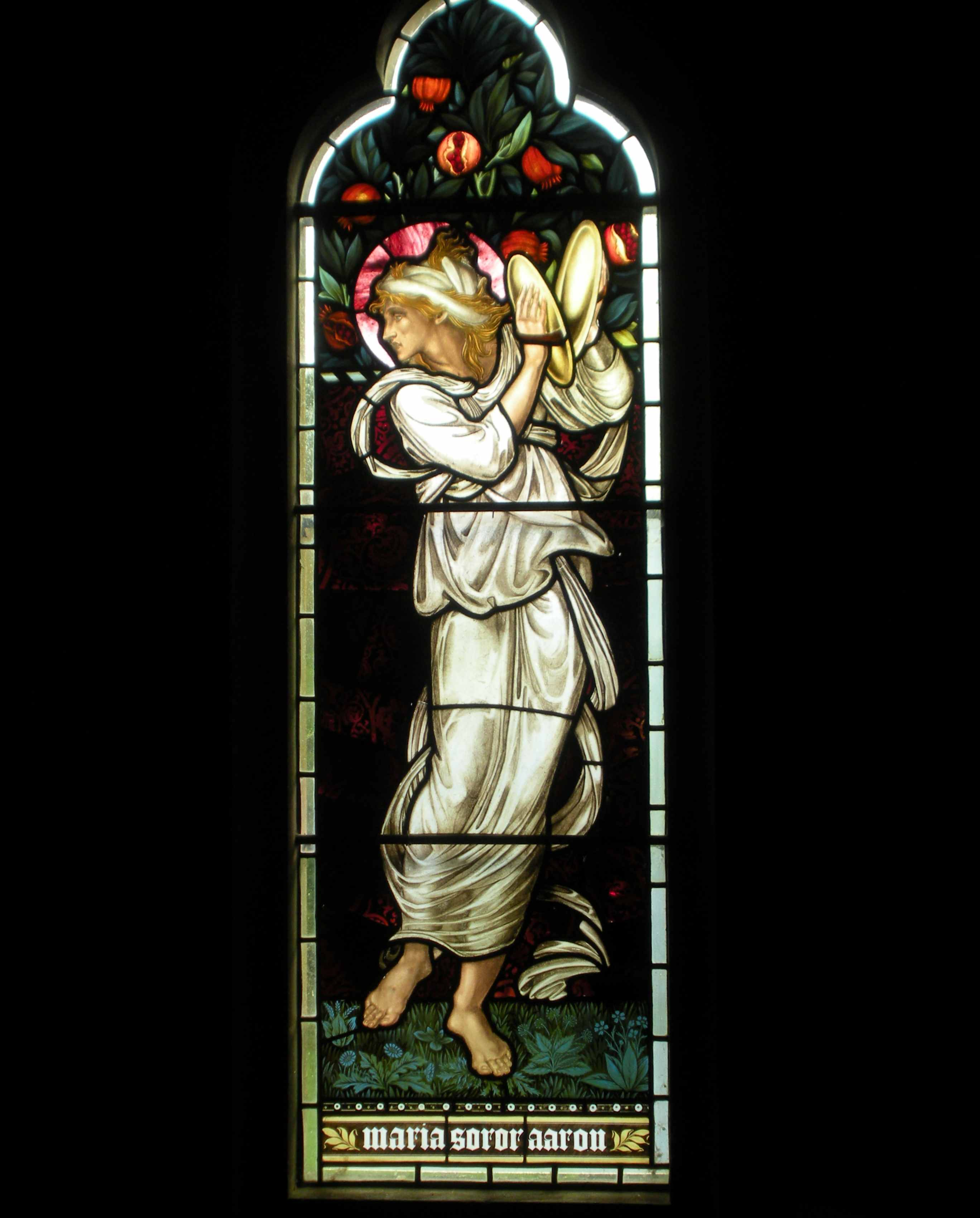 "Miriam", stained-glass window, by Edward Burne-Jones. 1872. Wikipedia:Waterford, Hertfordshire